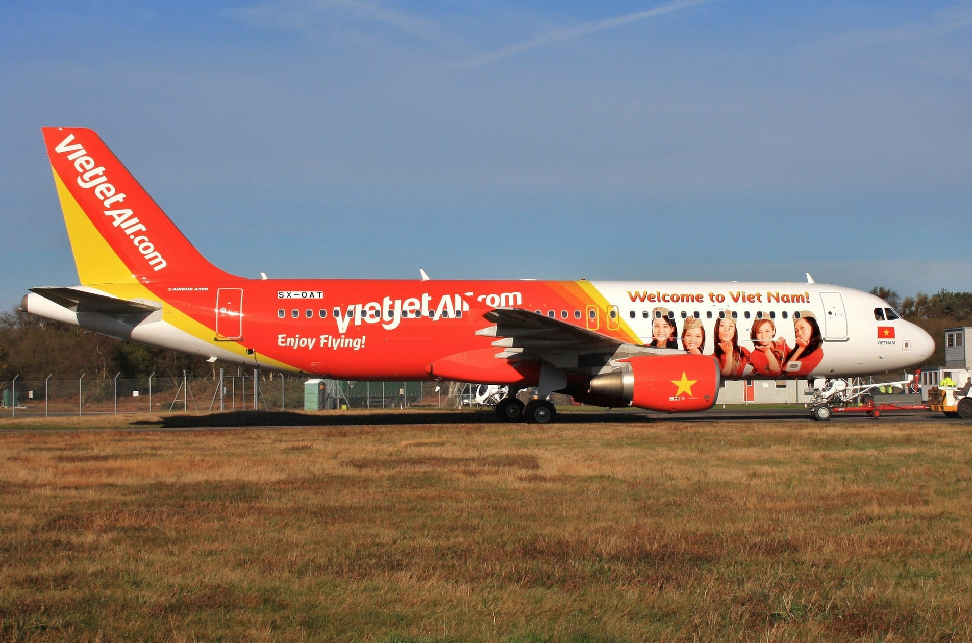 Photograph of VietJet airplane in Bournemouth